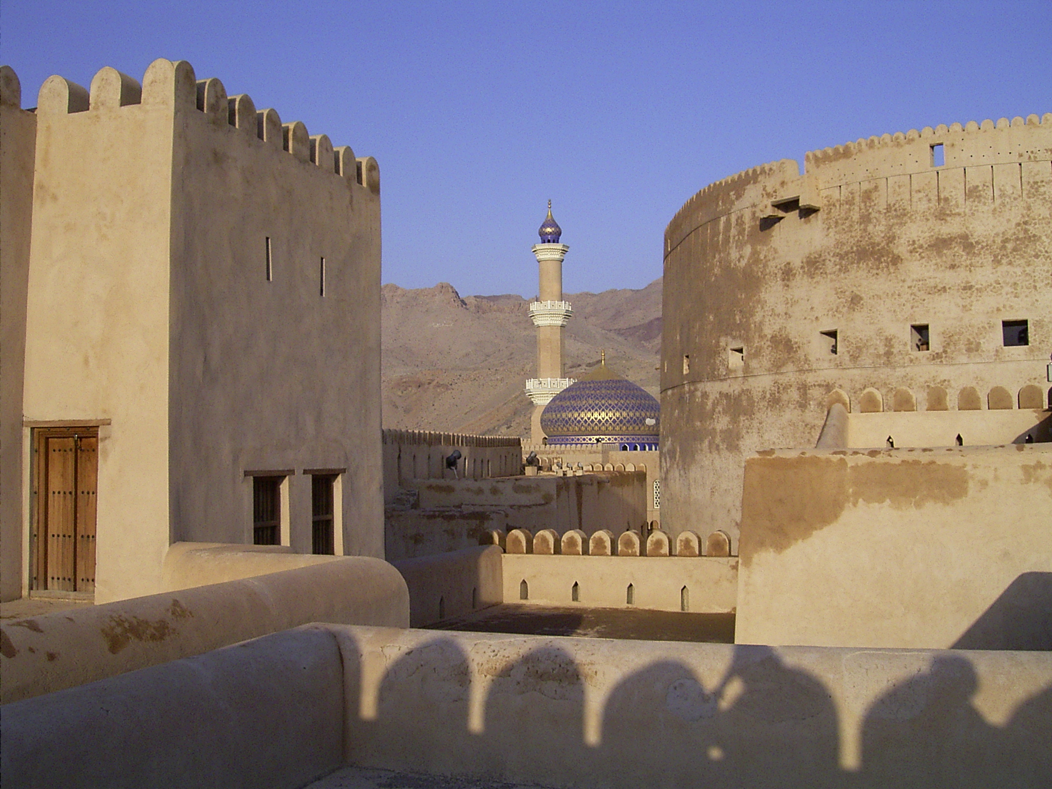 View to the Fort and the Mosque of Nizwa, Oman